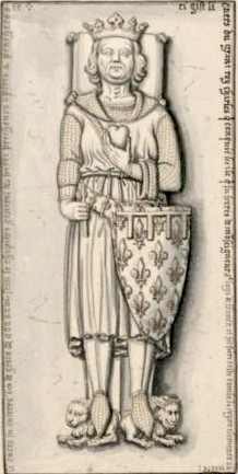 Charles I of Anjou